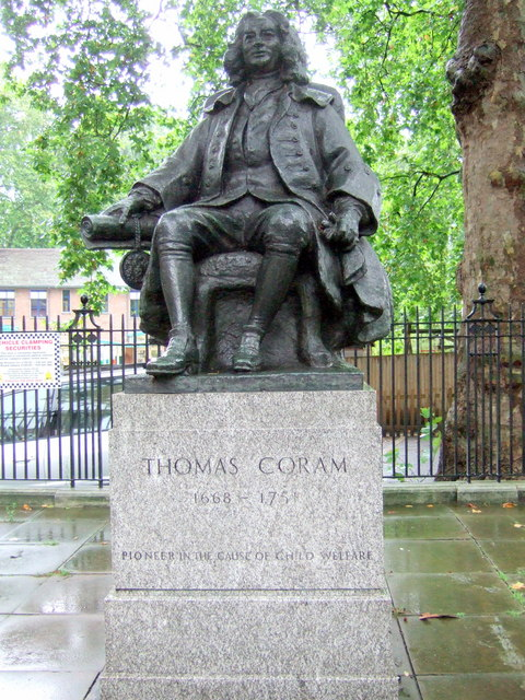 Thomas Coram His statue outside the Foundling Museum in Brunswick Square.